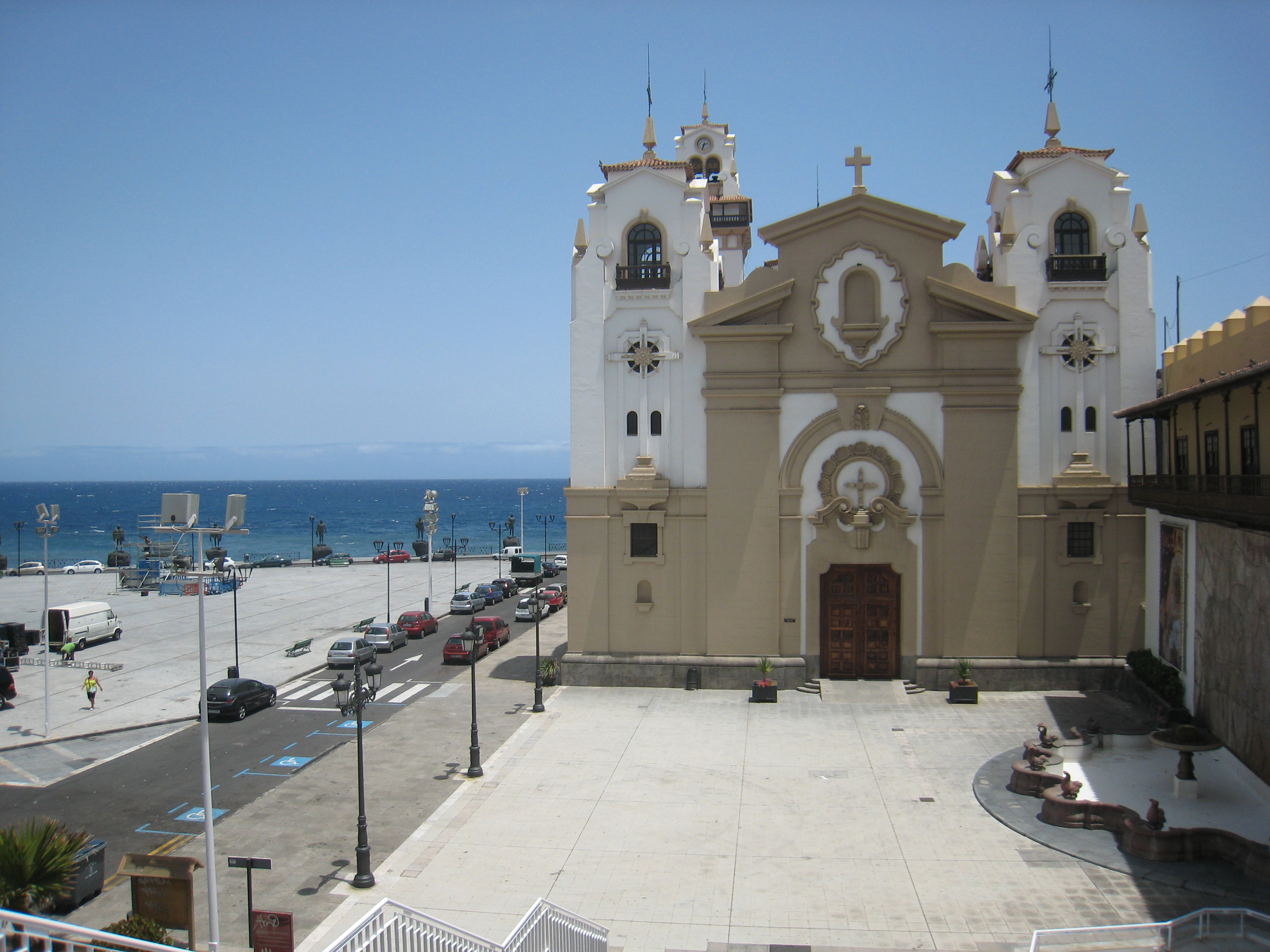 Façade of Candelaria Basilica, in Candelaria, Tenerife